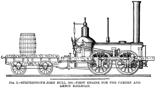 The John Bull, a steam locomotive built in England by Robert Stephenson and Company for the Camden and Amboy Railroad.